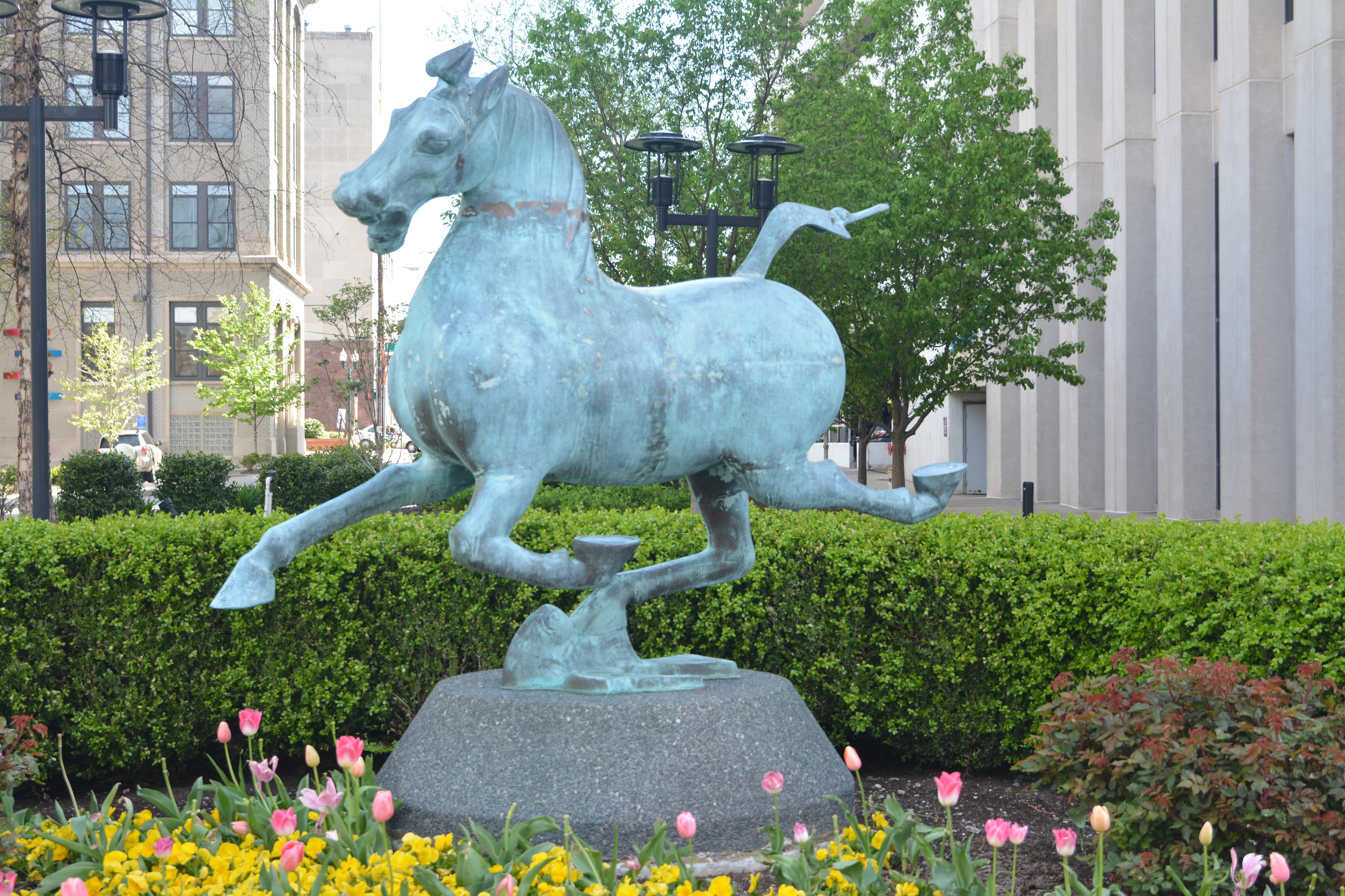 A replica of the Flying Horse of Gansu or known as the Bronze Running Horse that was donated as a gift to the city of Lexington Kentucky, USA in June 2000